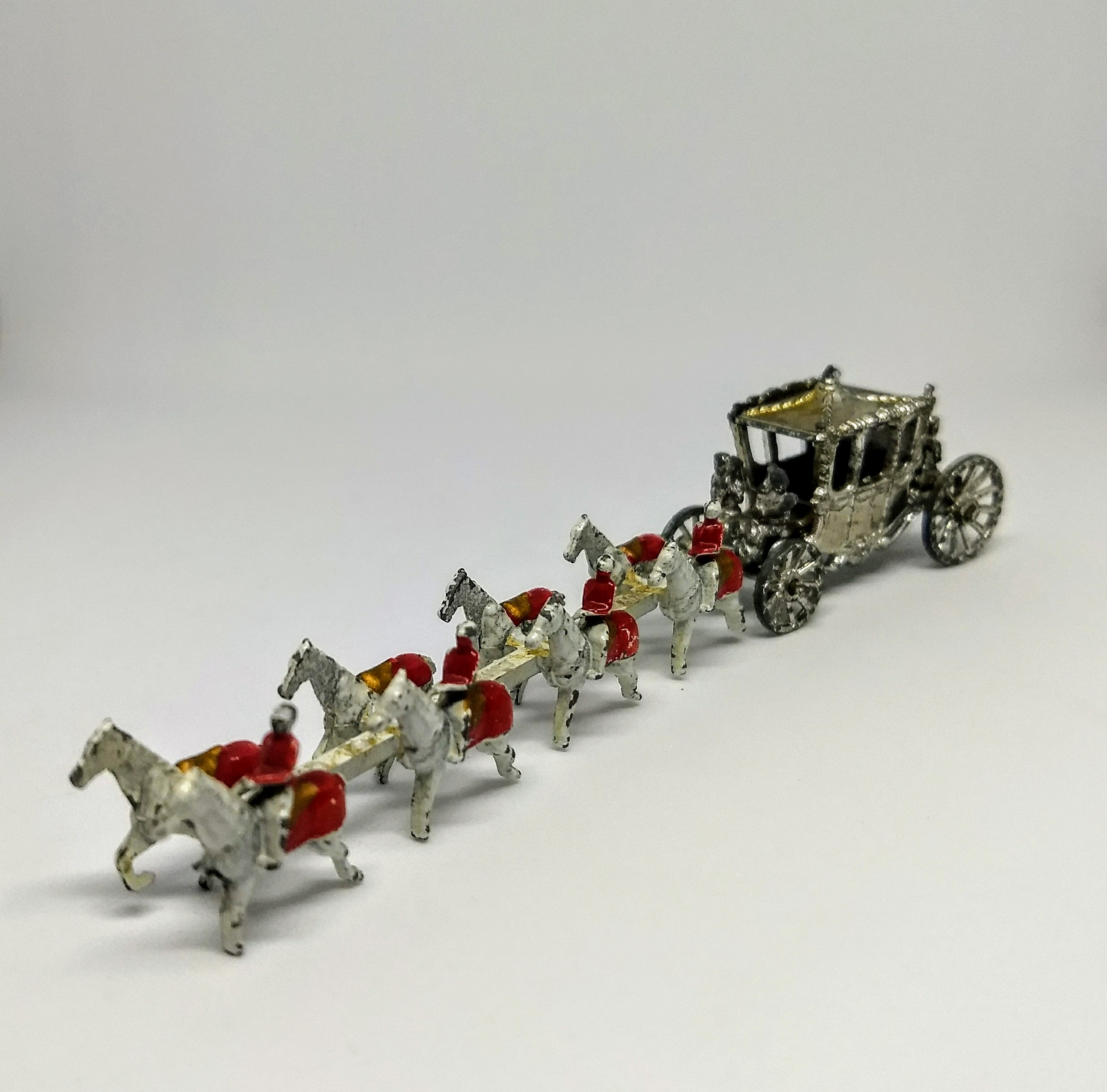 Lesney Products Coronation Coach from 1953